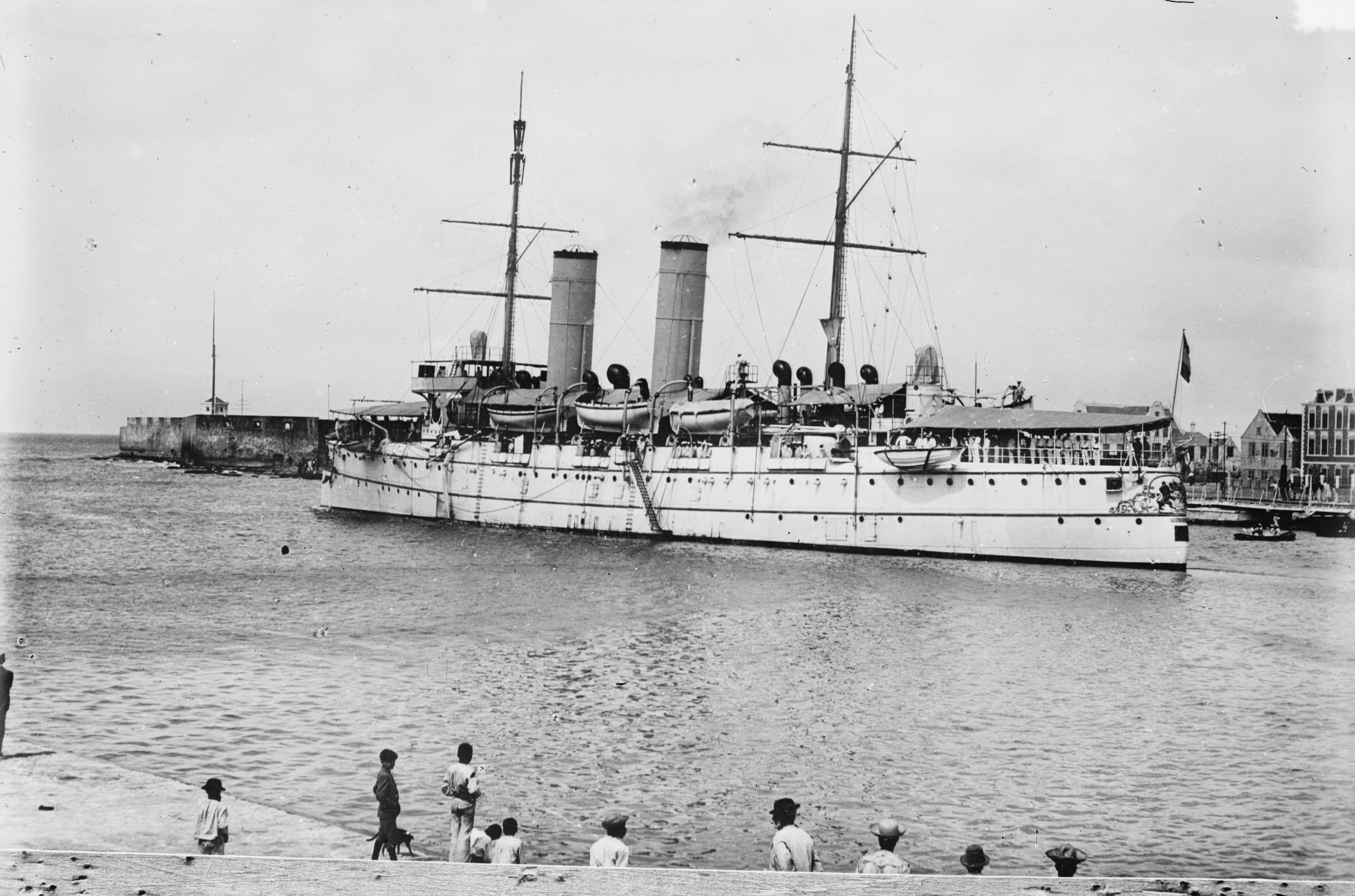 Title: "De Ruijter" (Holland) at Curacao (12/5/08) (8/17/14) Abstract/medium: 1 negative : glass ; 5 x 7 in. or smaller.